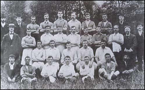 Thames Ironworks F.C. in 1899. Back (left to right): C. Barker, A. Woodcock, Charles Craig, H. Sunderland, Henry Gilmore, F. Adams. Second row: Fred Corbett, Charlie Dove, Tommy Dunn, Syd King, James Bigden, L. Foss, M. Higham, Sam Wright (trainer). Seated; W. James, Ken McKay, Tommy Moore, Albert Carnelly, Tom Bradshaw. Front; J. Walker, Peter McManus, Bill Joyce, Roderick McEachrane, Simon Chisholm.